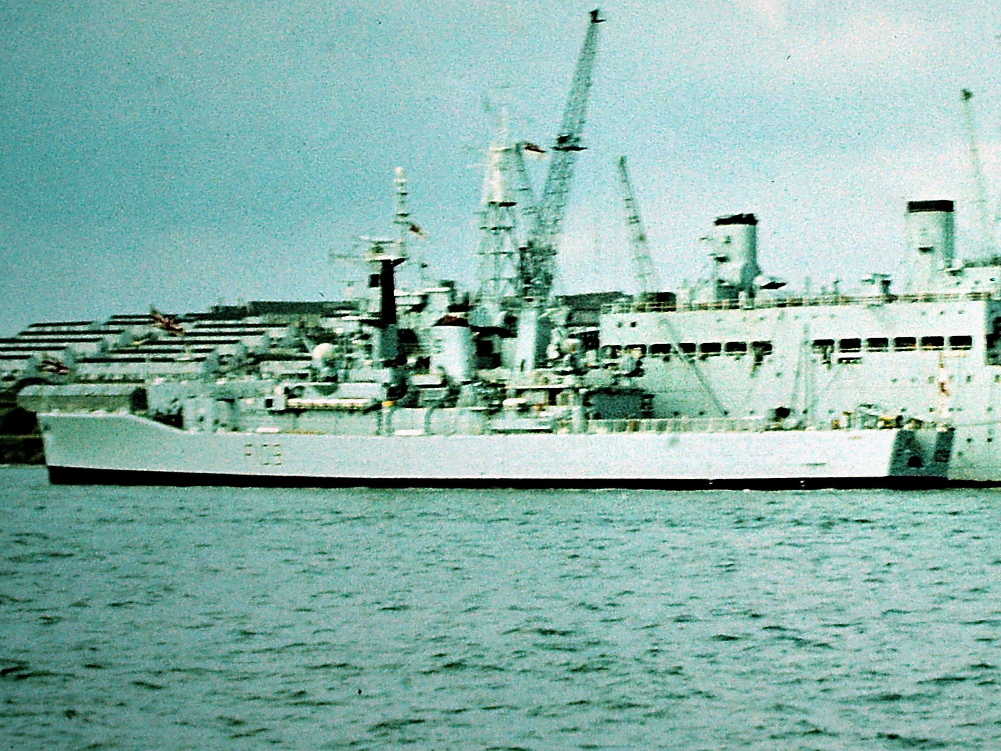 The Royal Navy frigate HMS Leander (F109) docked at Her Majesty's Naval Base, Devonport (HMNB Devonport) during the Plymouth Navy Day, in August 1977. She is moored alongside the submarine depot ship HMS Defiance (A187).